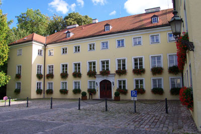 Schloss Ismaning', Landkreis München, Upper Bavaria. Listed in the register of historical monuments of Bavaria, Germany. Current use as city hall.